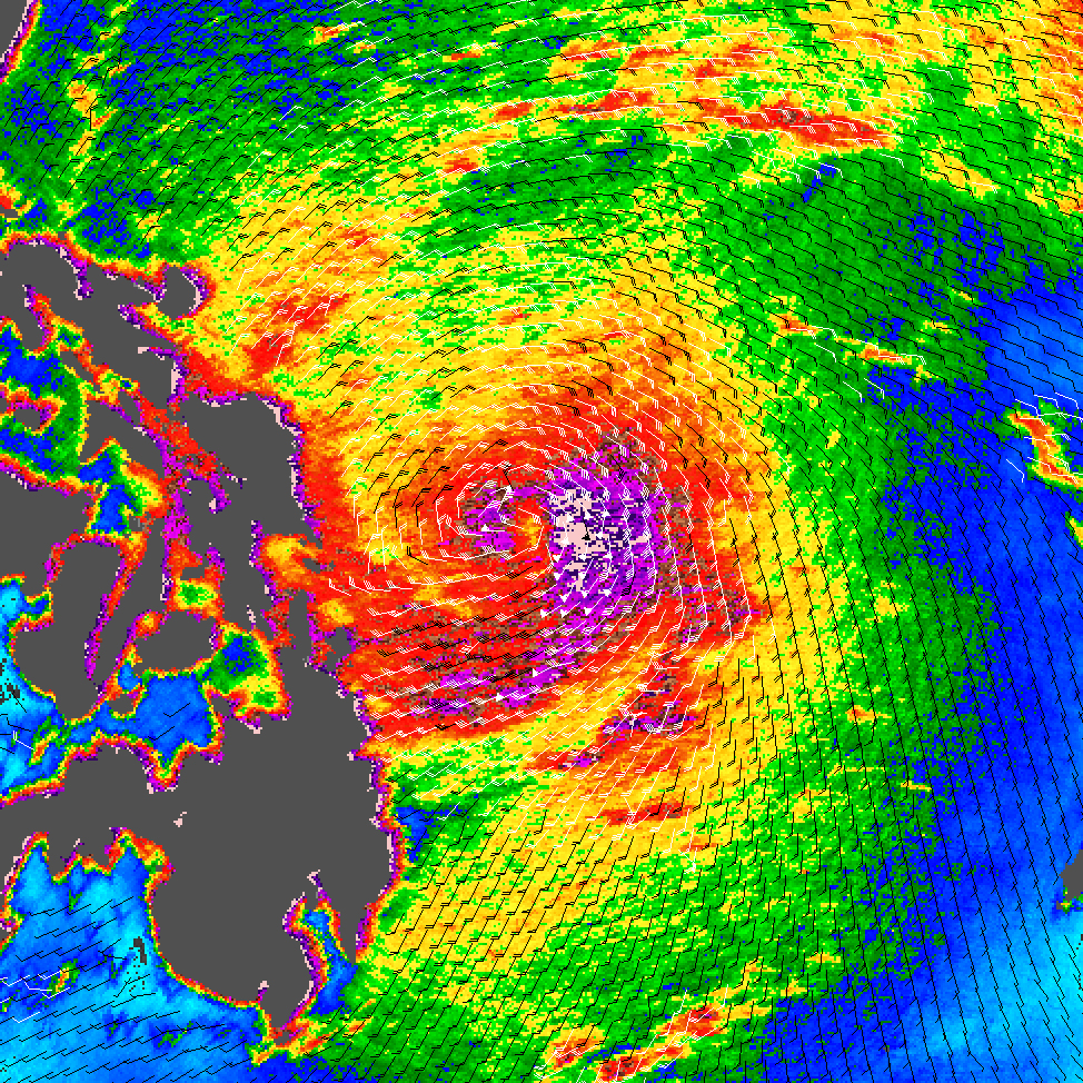 Typhoon Chanchu Typhoon Chanchu is shown here as observed by NASA’s QuikSCAT satellite on May 10, 2005, at 21:11 UTC (5:11 a.m. May 11 local time). At this time, the typhoon had 140 kilometers per hour (85 miles per hour; 75 knots) sustained winds. At the time of this observation, Chanchu had just crossed the threshold to typhoon status only a few hours later, having been classified as a weaker tropical cyclone in the previous two days since the storm system formed. The image depicts wind speed in color and wind direction with small barbs. White barbs point to areas of heavy rain. The highest wind speeds, shown in purple, surround the center of the storm. Measurements of the wind strength of Typhoon Chanchu show sustained winds slightly higher than those shown by QuikSCAT observations. This is because the power of the storm makes accurate measurements difficult. The scatterometer sends pulses of microwave energy through the atmosphere to the ocean surface, and measures the energy that bounces back from the wind-roughened surface. The energy of the microwave pulses changes depending on wind speed and direction, giving scientists a way to monitor wind around the world. Tropical cyclones (the generic term for hurricanes and typhoons), however, are difficult to measure. To relate the radar energy return to actual wind speed, scientists compare measurements taken from buoys and other ground stations to data the satellite acquired at the same time and place. Because the high wind speeds generated by cyclones are rare, scientists do not have corresponding ground information to know how to translate data from the satellite for wind speeds above 50 knots (about 93 km/hr or 58 mph). Also, the unusually heavy rain found in a cyclone distorts the microwave pulses in a number of ways, making a conversion to accurate wind speed difficult. Instead, the scatterometer provides a nice picture of the relative wind speeds within the storm and shows wind direction.